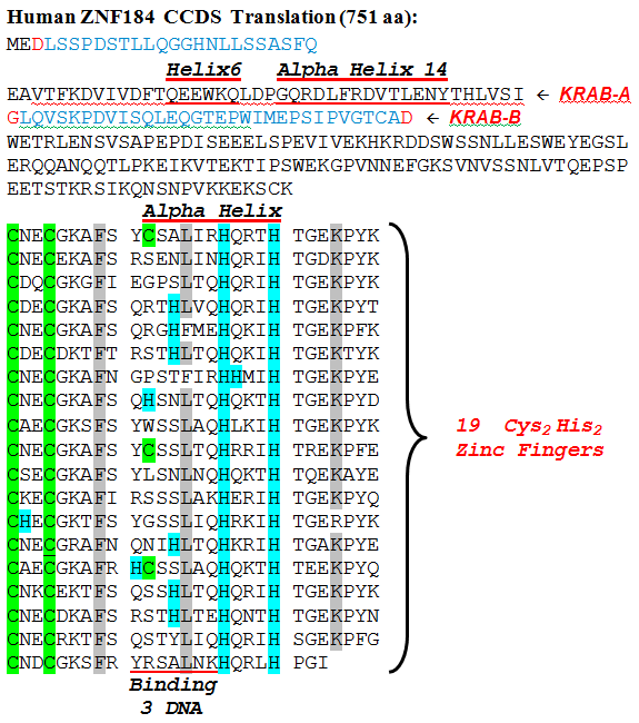 Translation of human ZNF184 gene Consensus Coding Sequence showing codons in alternating black and blue, reformatted to show protein secondary structure.